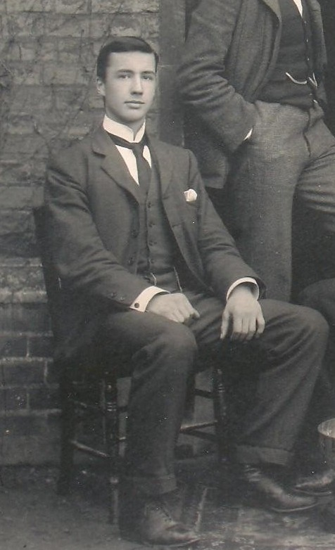 John Earnest Payne, husband of Sylvia Payne